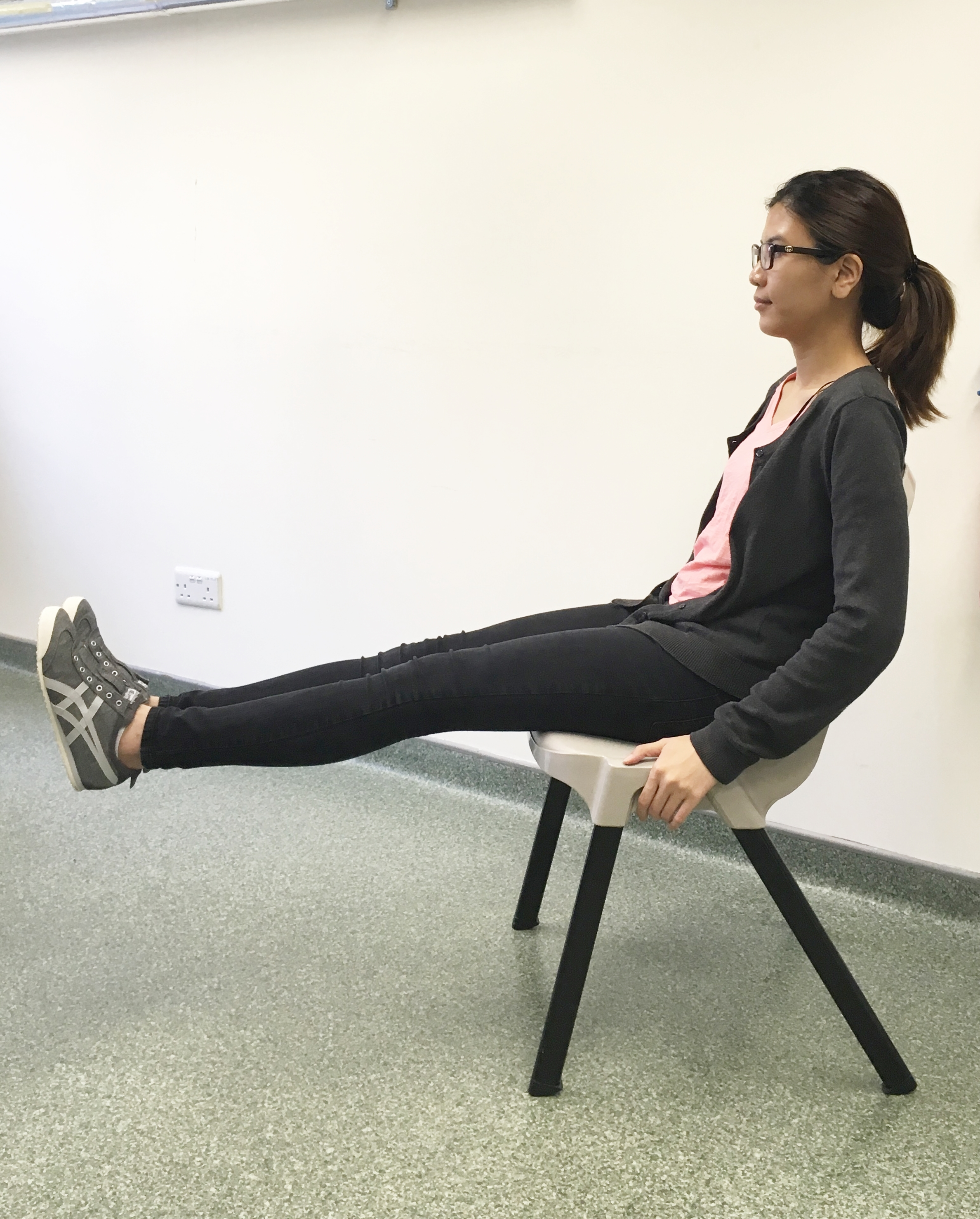 Raising both legs